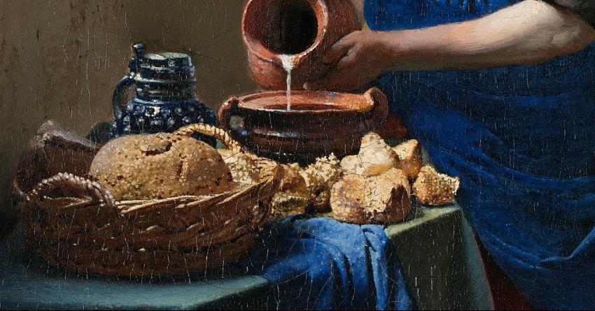 Détail of still life painting